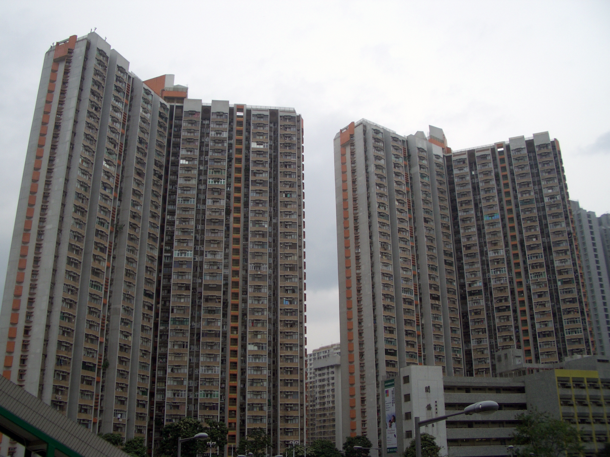 On Pok House and On Mei Hse, Tsing Yi, New Territories, Hong Kong